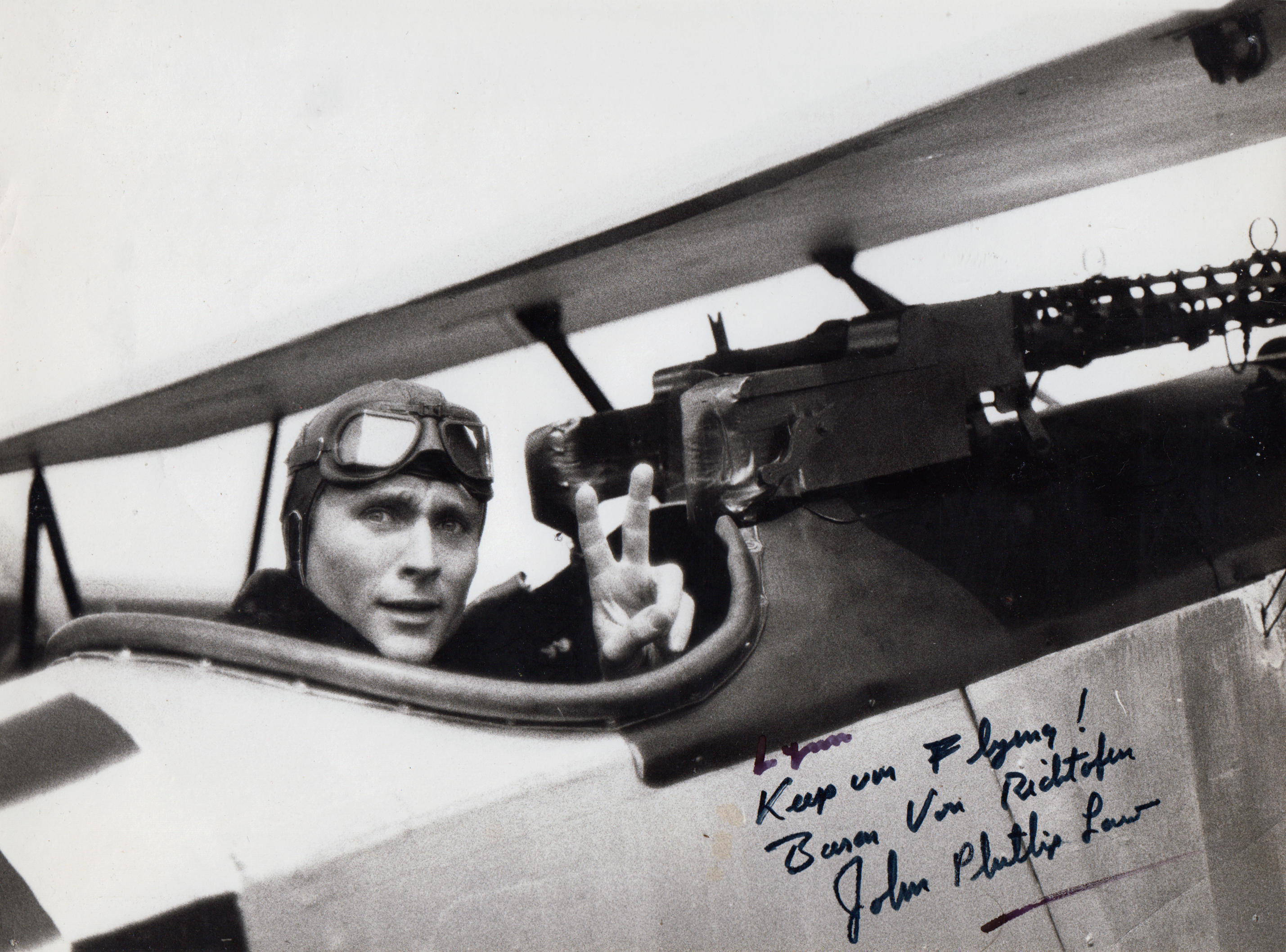 John Phillip Law during production of Richthofen & Brown, 1970